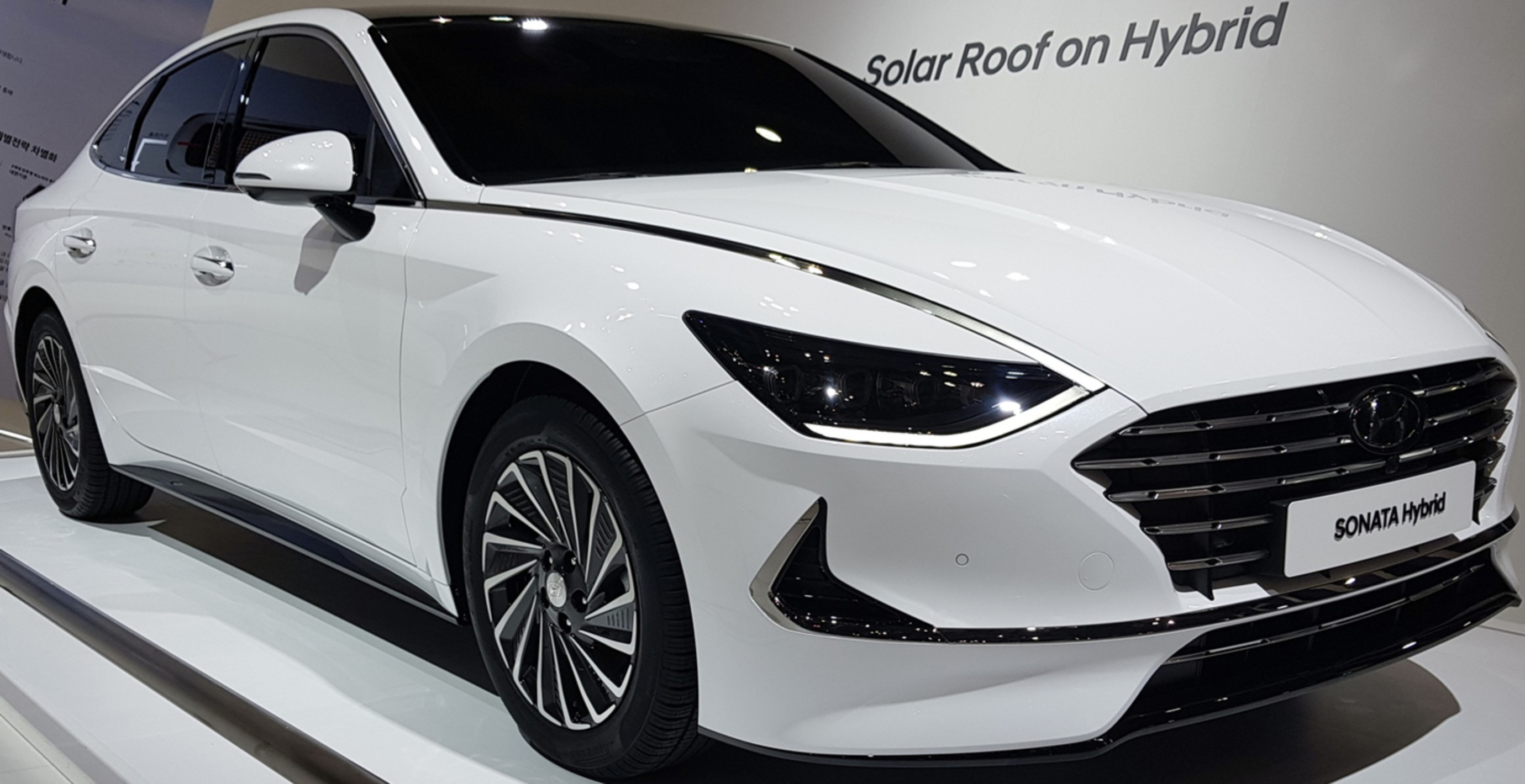 Hyundai Sonata Hybrid